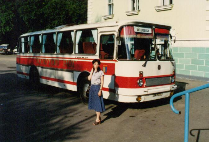 Transfer bus LAZ-697R for railway station from Nakhodka Port.